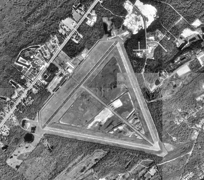 Aerial image of Georgetown Airport, South Carolina